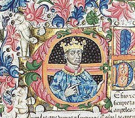 Henry the fourth of Castile. Image decorating a parchment Royal Privilege confirming the estate of Juan Pacheco (Marquis of Villena) and his wife Juana Portocarrero. Signed at Almazán on Jan. 29th, 1463.